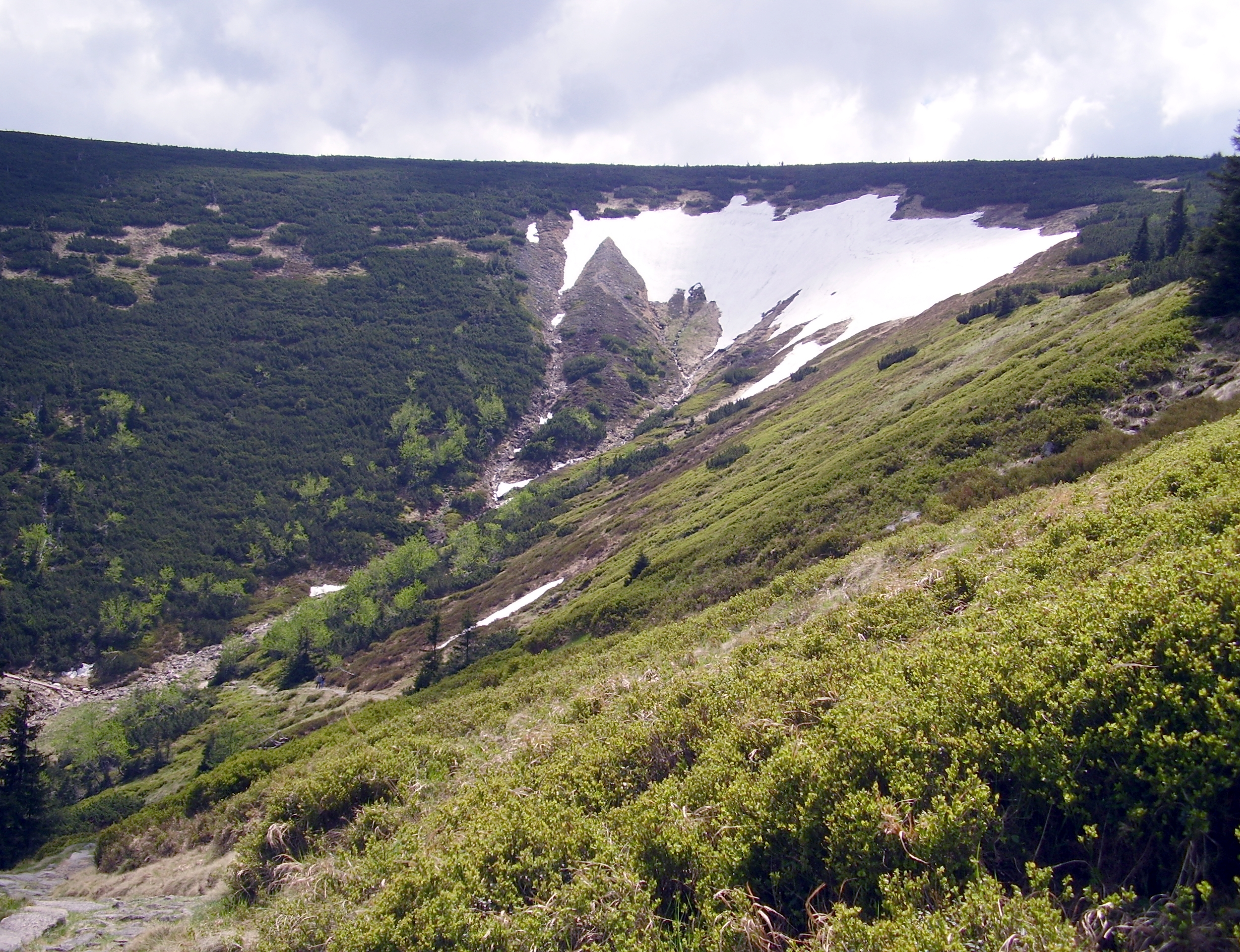 A photo of Bialy Jar shot on a trip in May 2012.